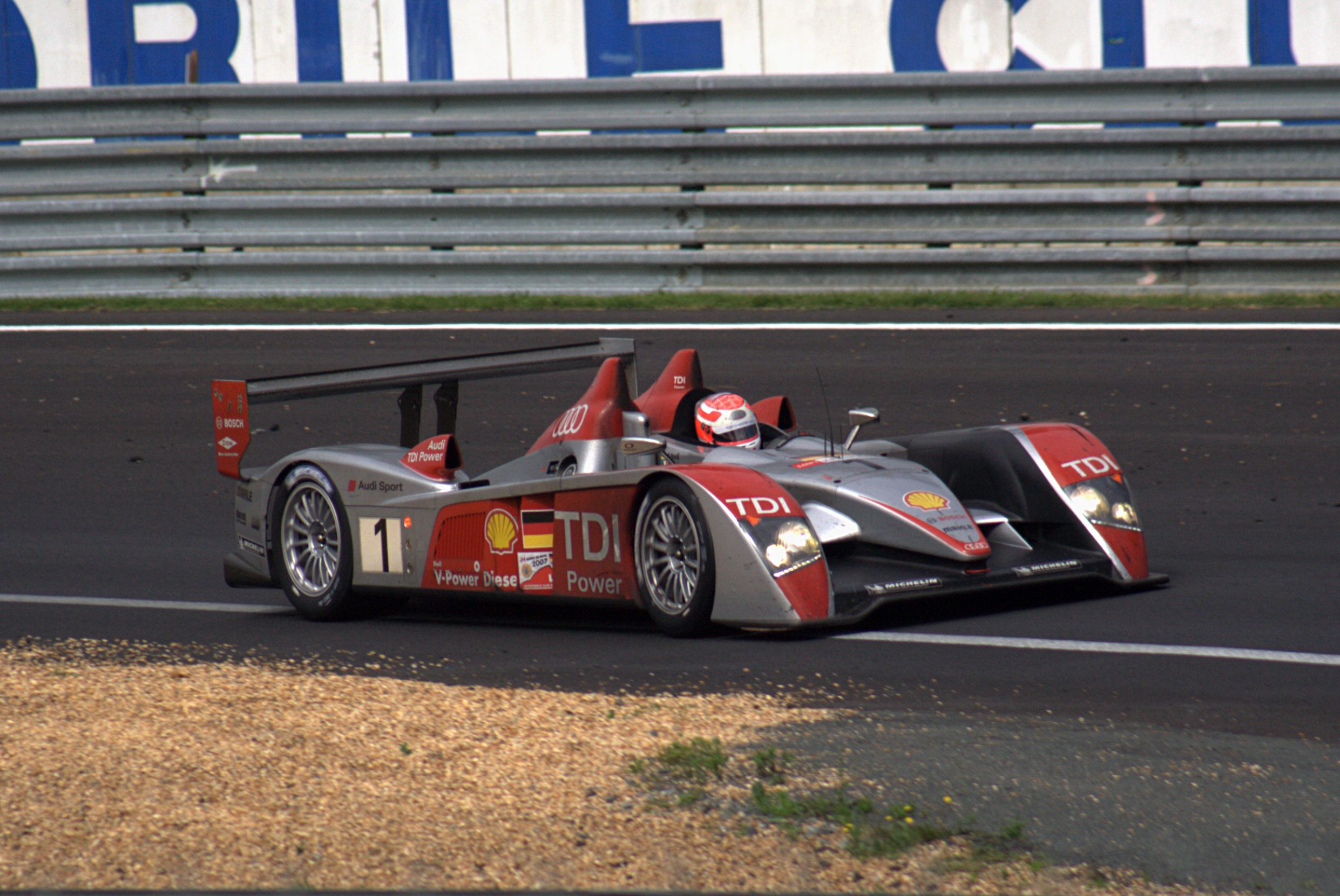 Audi R10, 24 hours of le Mans, 17th June 2007